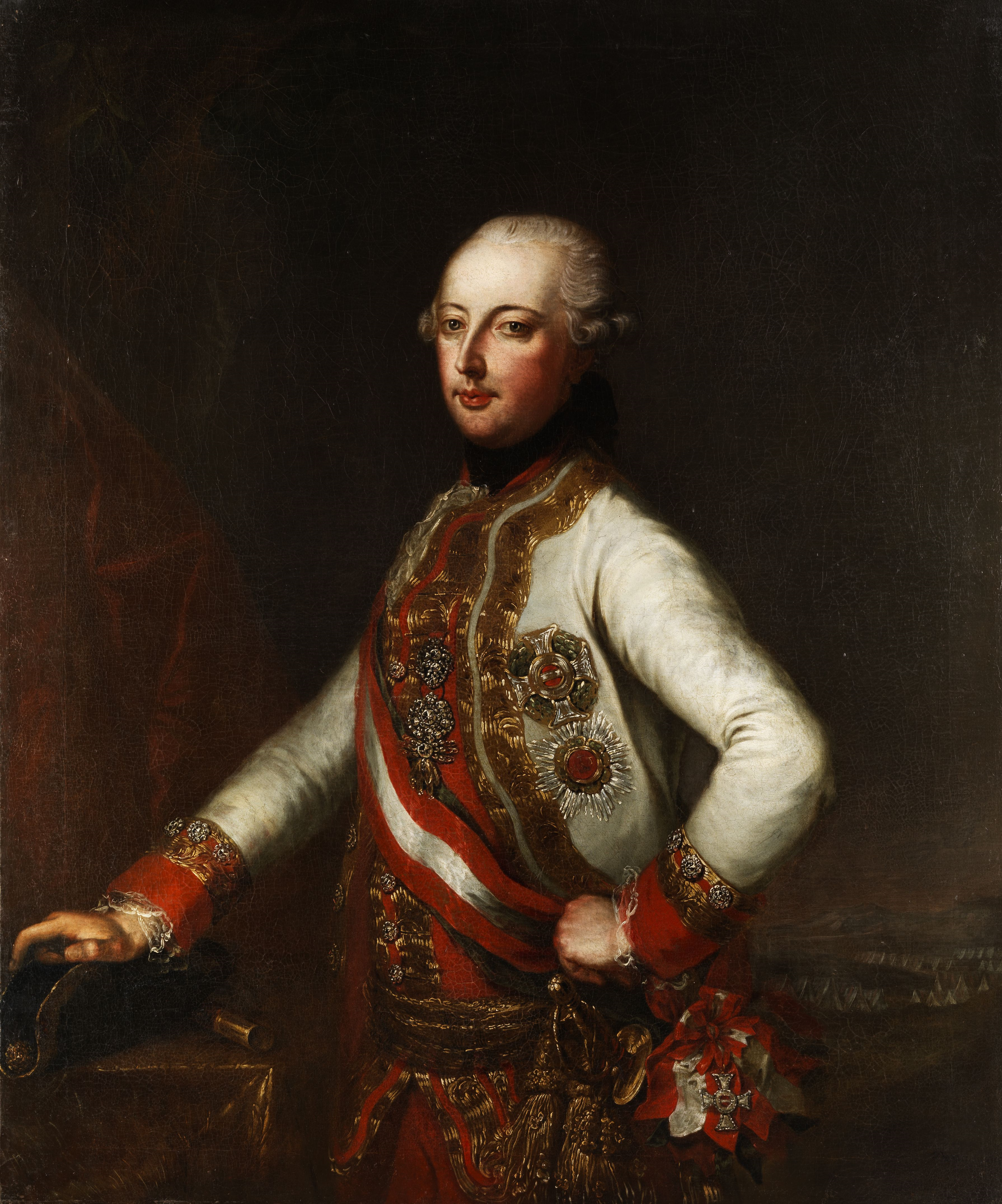 Portrait of Emperor Joseph II (1741-1790)